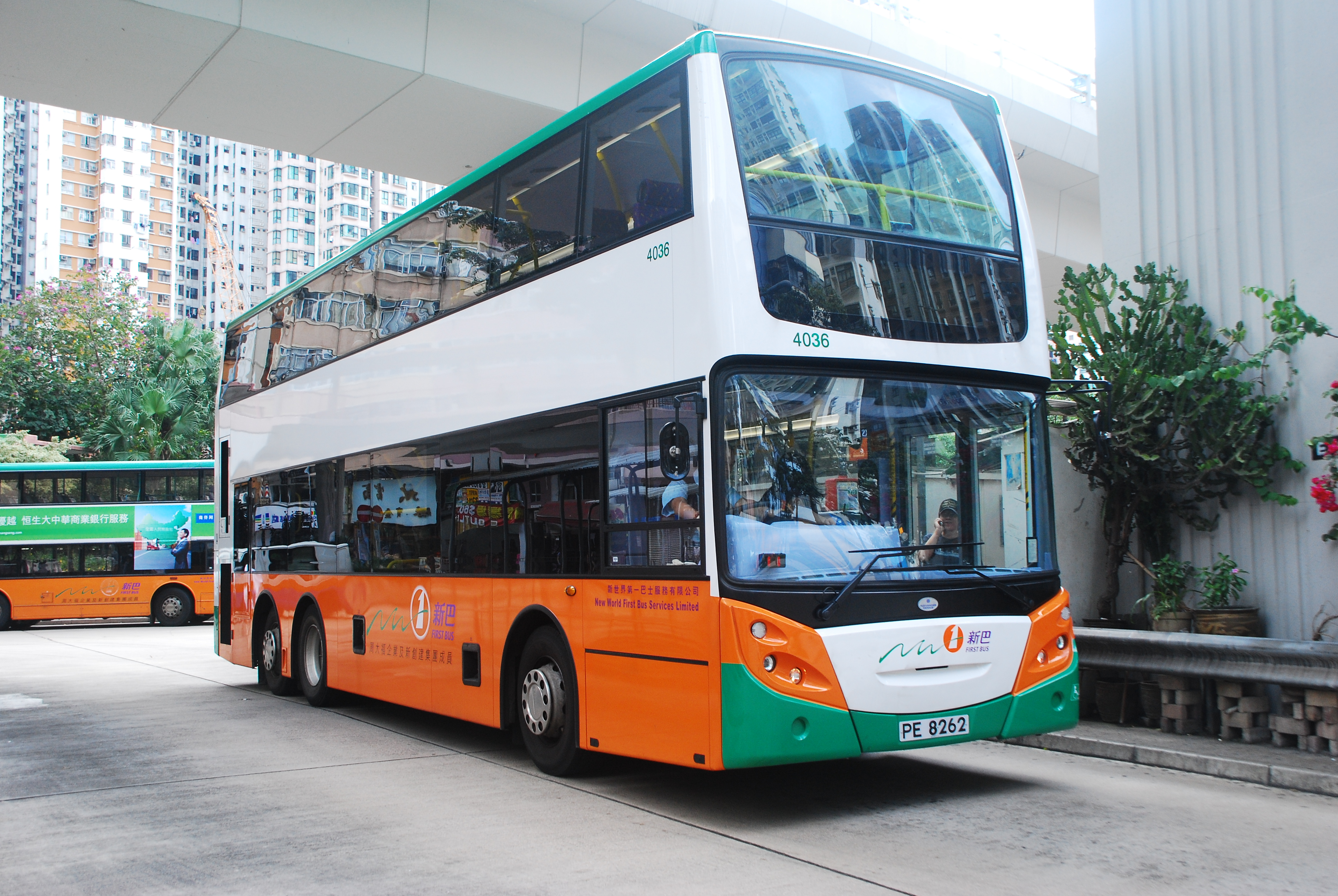 it was taken on 9/5/2010